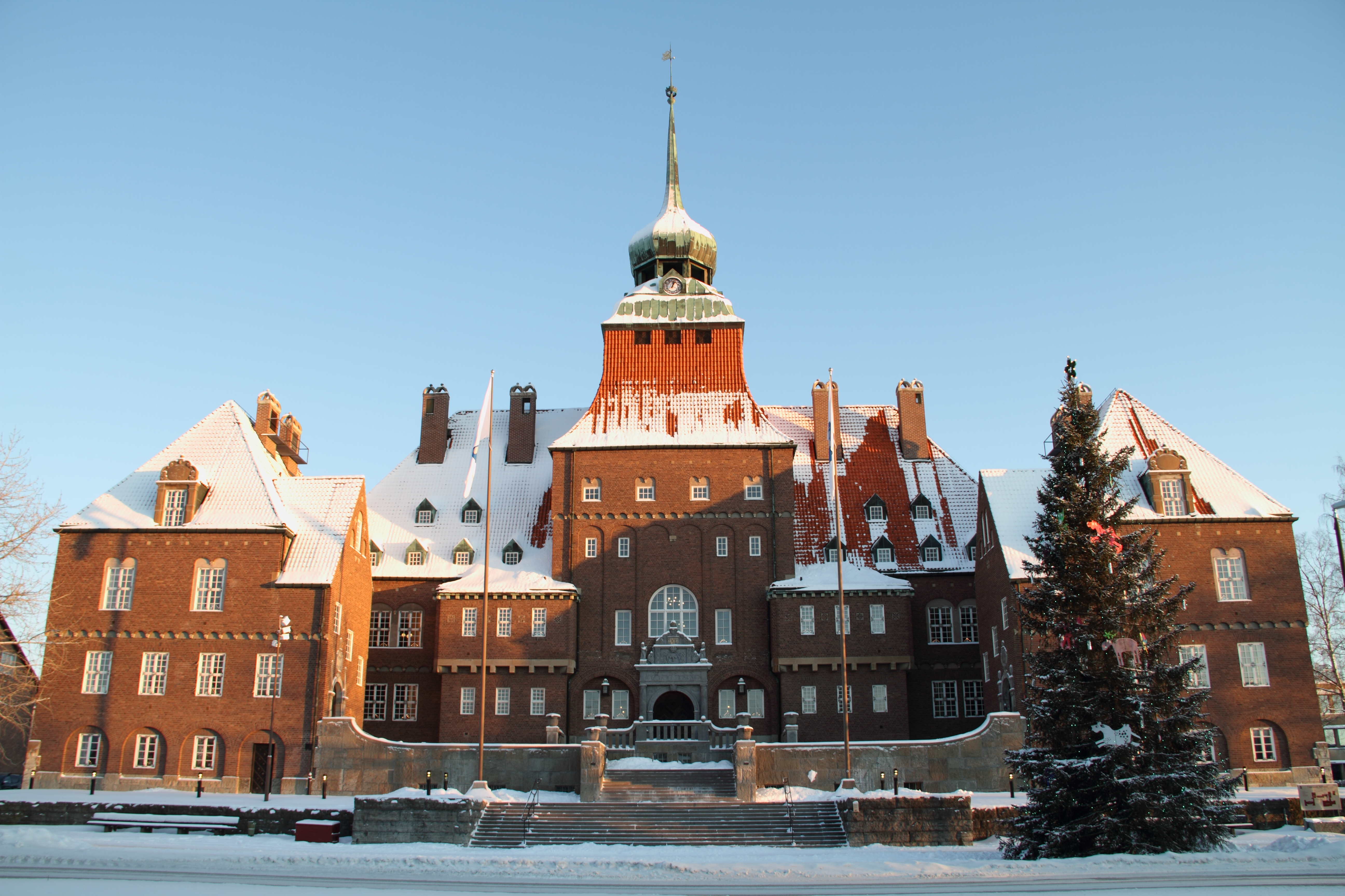 Östersund city hall in december, Jämtland, Sweden.